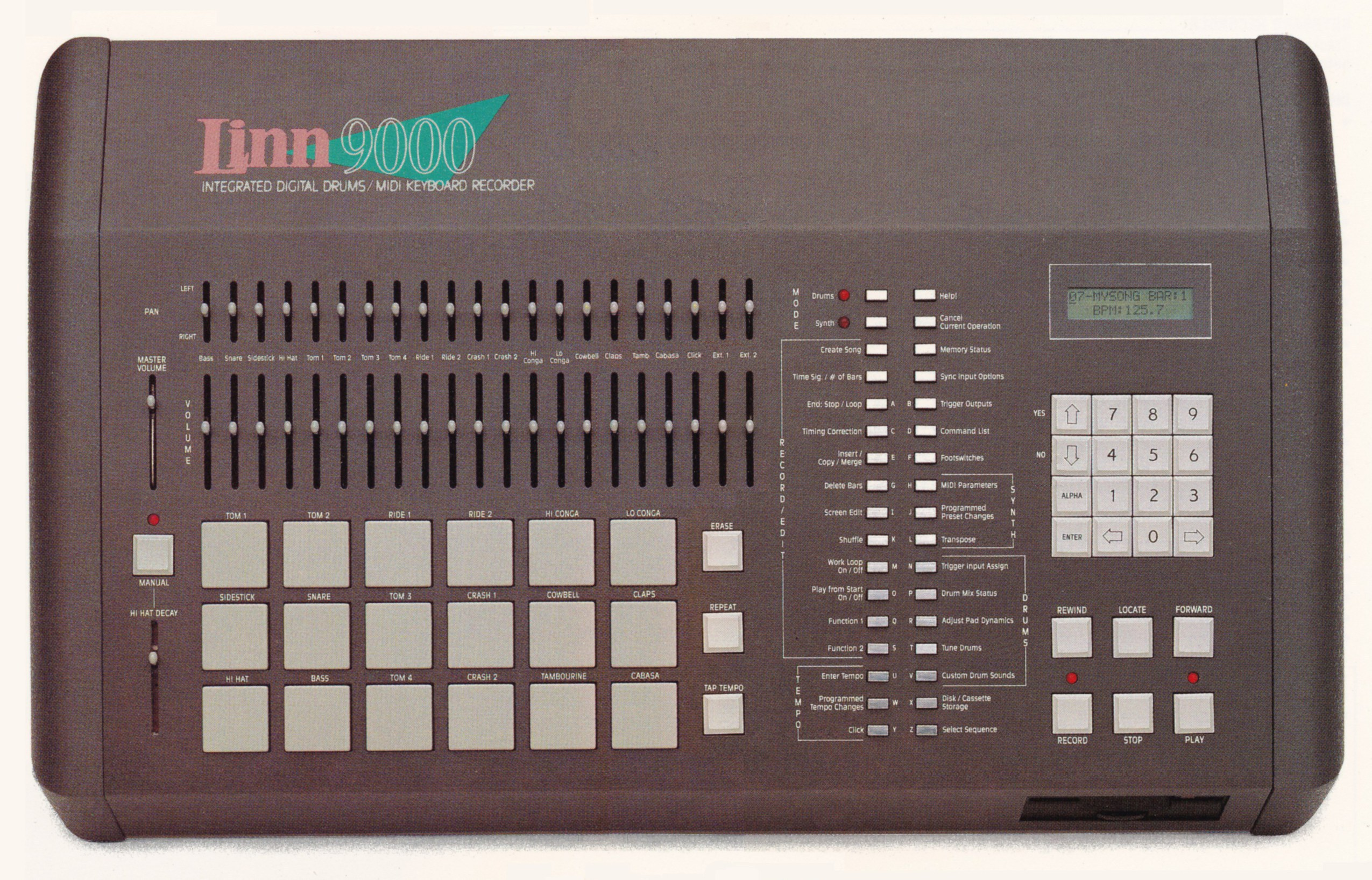 Linn 9000 integrated digital drum machine and MIDI keyboard recorder brochure page 2 and 3 - cropped and Photoshopped - top view